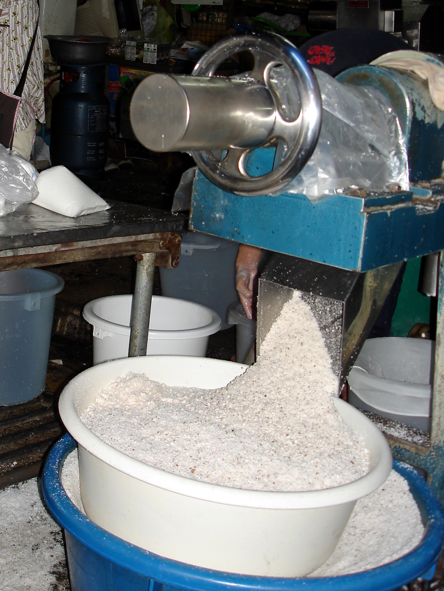 Photograph of coconut being grated, ready to make coconut milk in Chiang Mai, Thailand